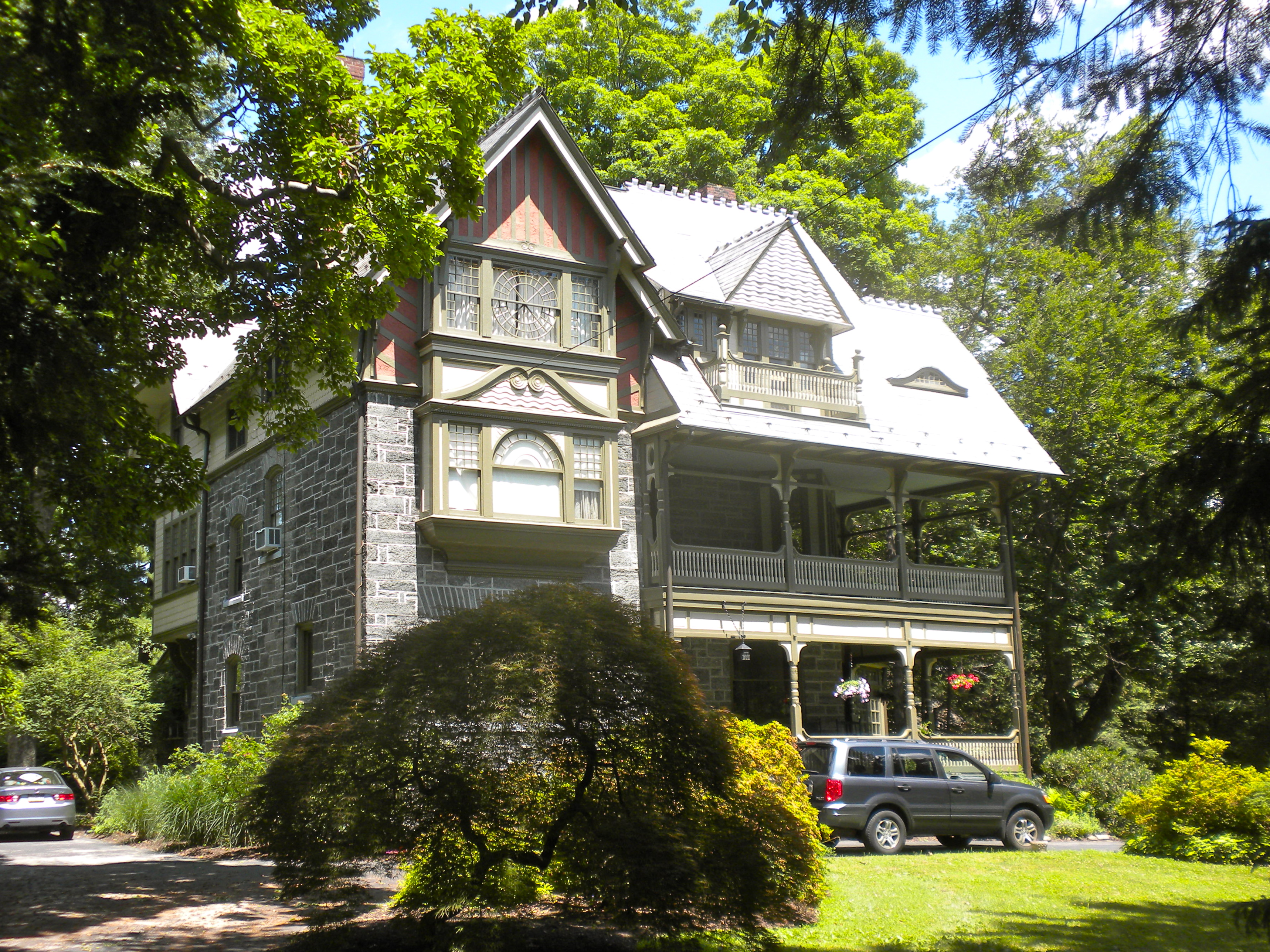 Houston-Sauveur House (1885) by G. W. & W. D. Hewitt, in Chestnut Hill Historic District. The HD has been on the NRHP since June 20, 1985 and is roughly bounded by Fairmount Park and the Montgomery County line. This house is at 8205 Seminole, near corner of Hartwell, about a block from Pastorious Park in the Chestnut Hill neighborhood of NW Philadelphia. Coords below are for district